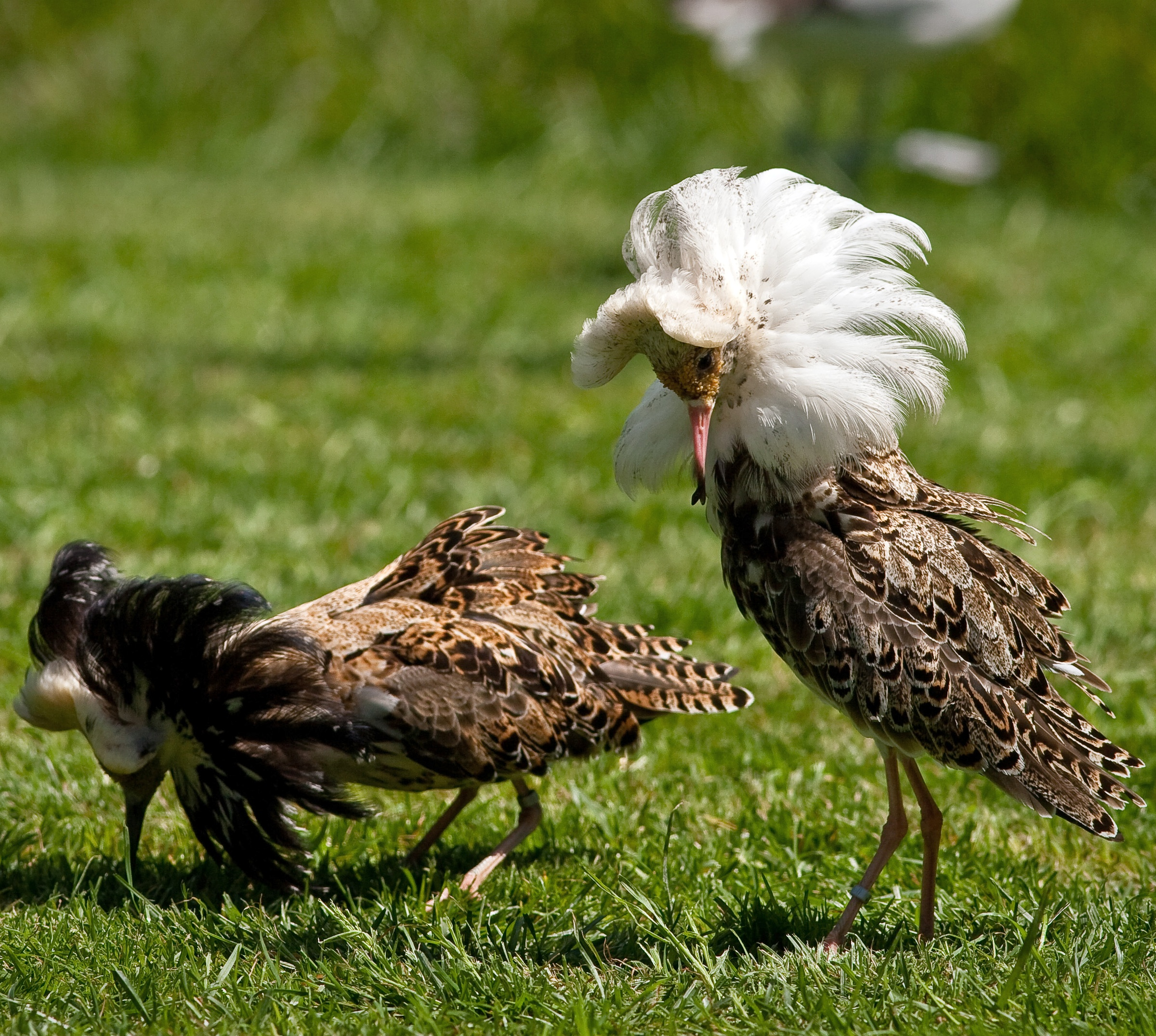 Two male Ruff at Diergaarde Blijdorp, Netherlands.